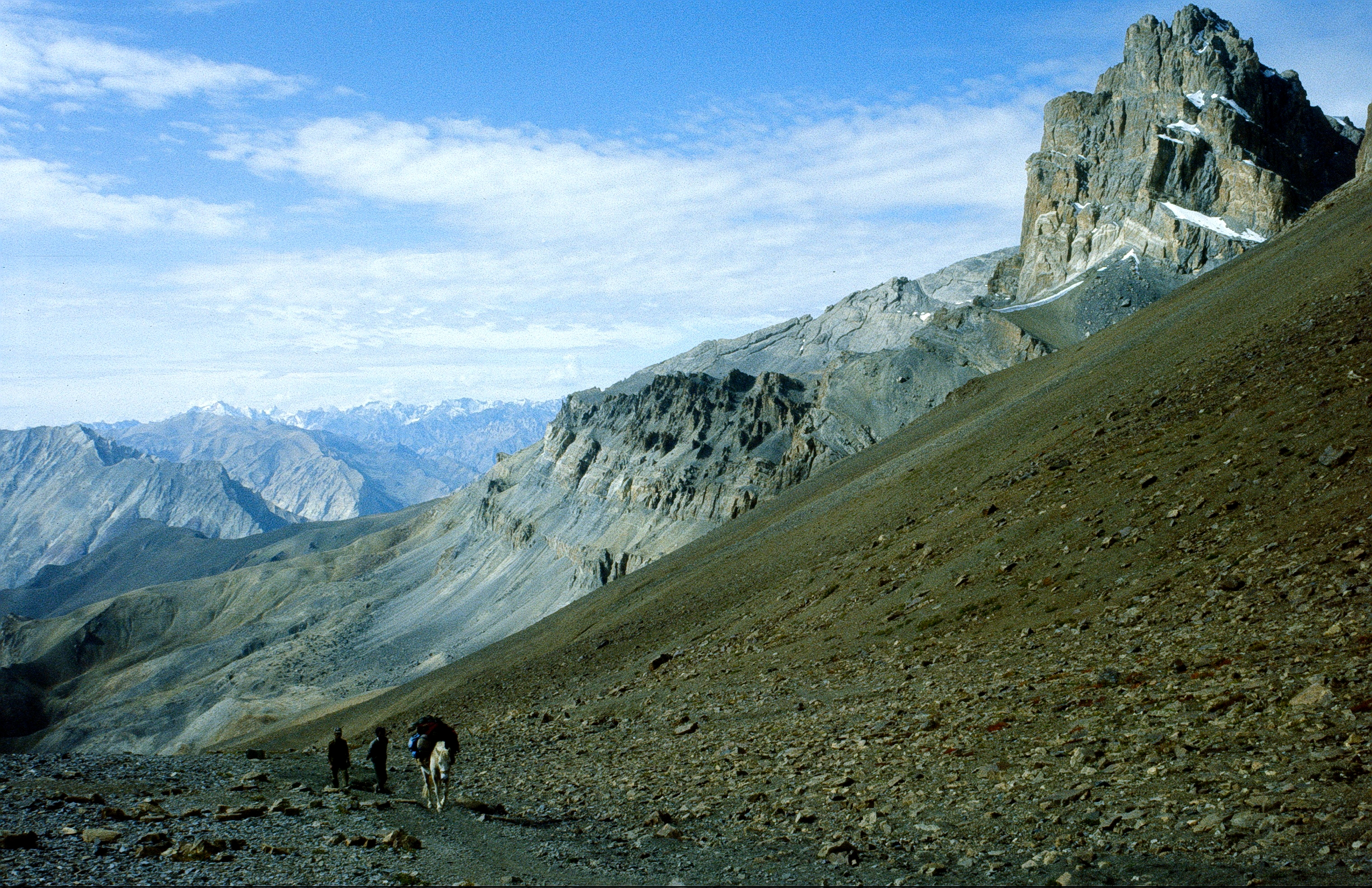 Walking to the Sengge-La (5000 mêtres) Zanskar/Ladakh.